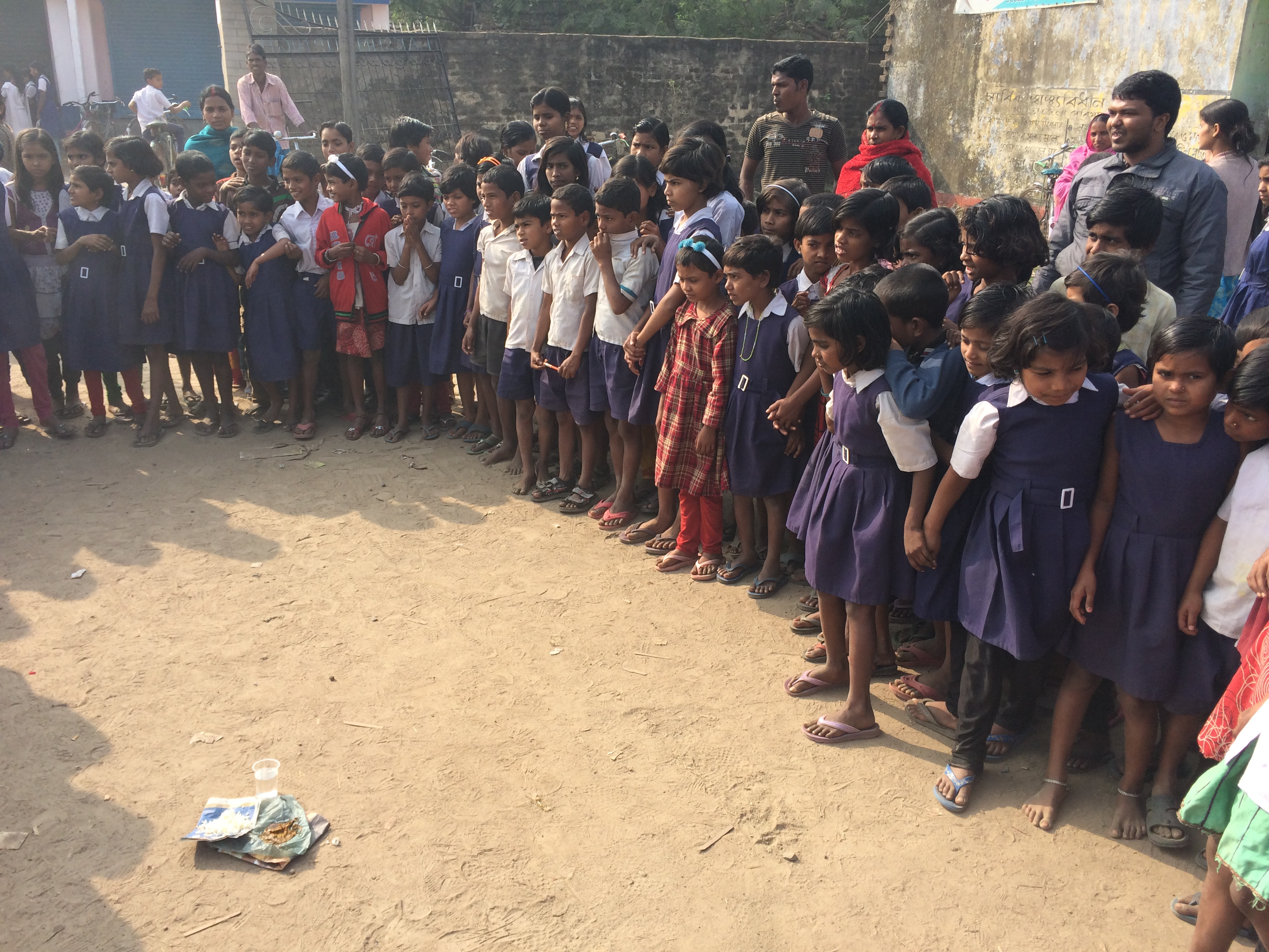 The school children are looking at a glass of water and fresh feces. Flies will pass from the water to the feces and back... This demonstrate the route of how drinking water can get polluted with pathogens. December 2014, photo by Jamie Myers